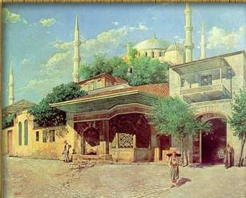 Sultanahmet Camii (Ahmet Ziya Akbulut)